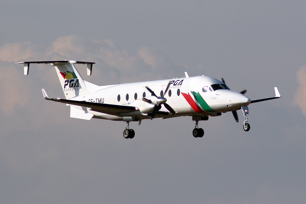 Second daily flight from Lisbon to Seville